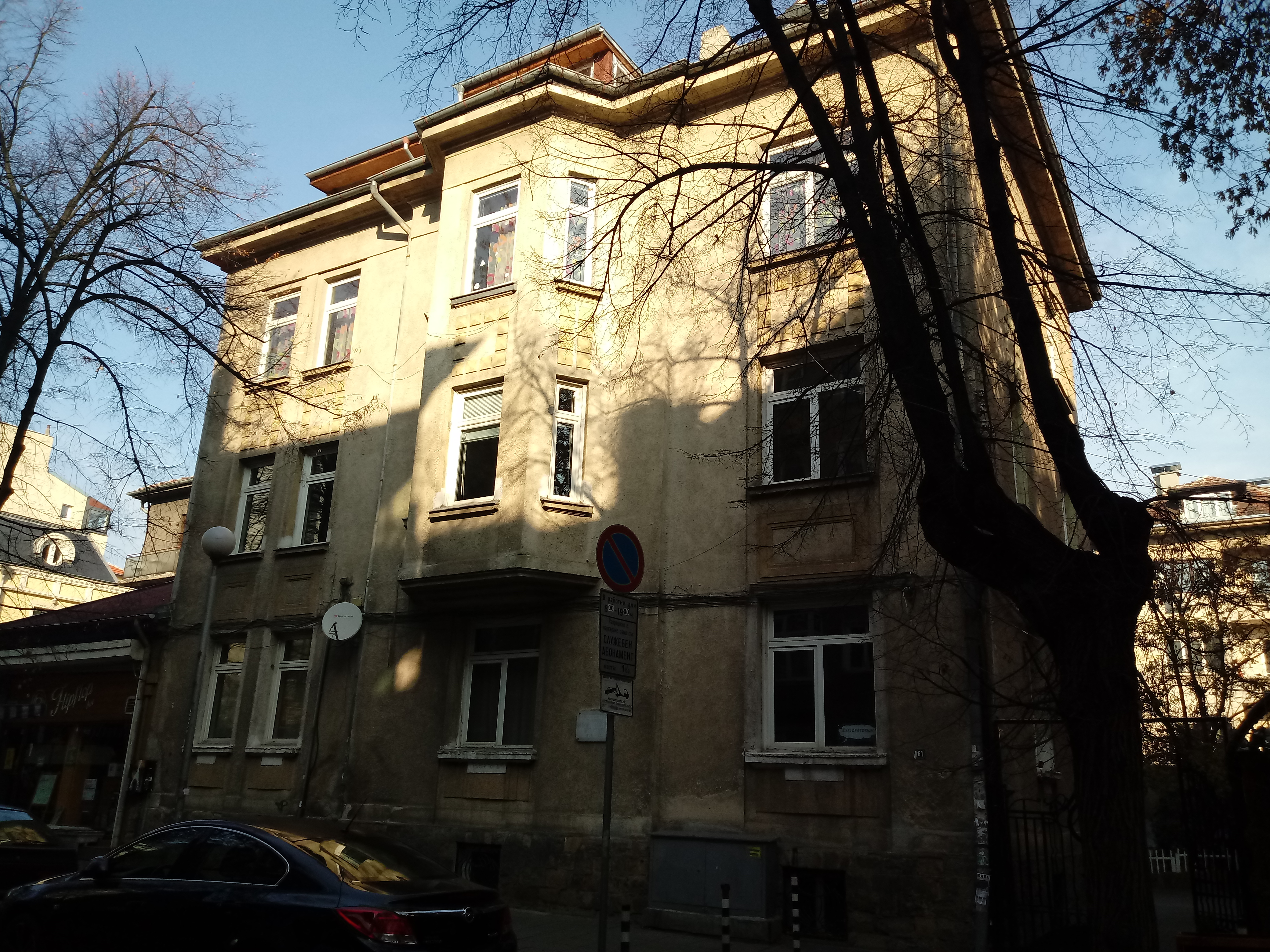 Marin Ustagenov home with memorial plaque, 61 Oborishte Str., Sofia